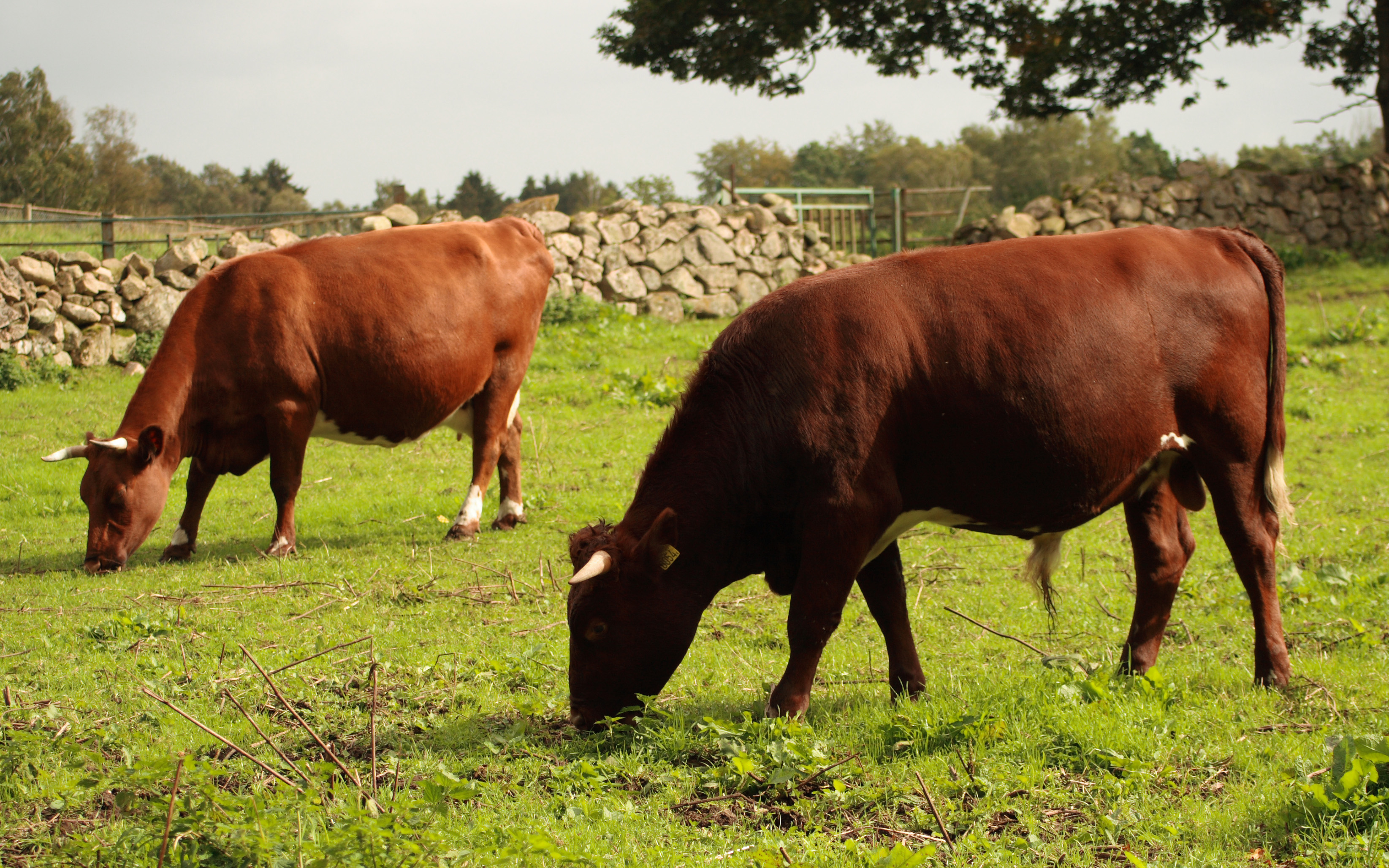 Väneko cow and bull (Bos taurus), an ancient Swedish race, photographed at Skånes Djurpark in Sweden.